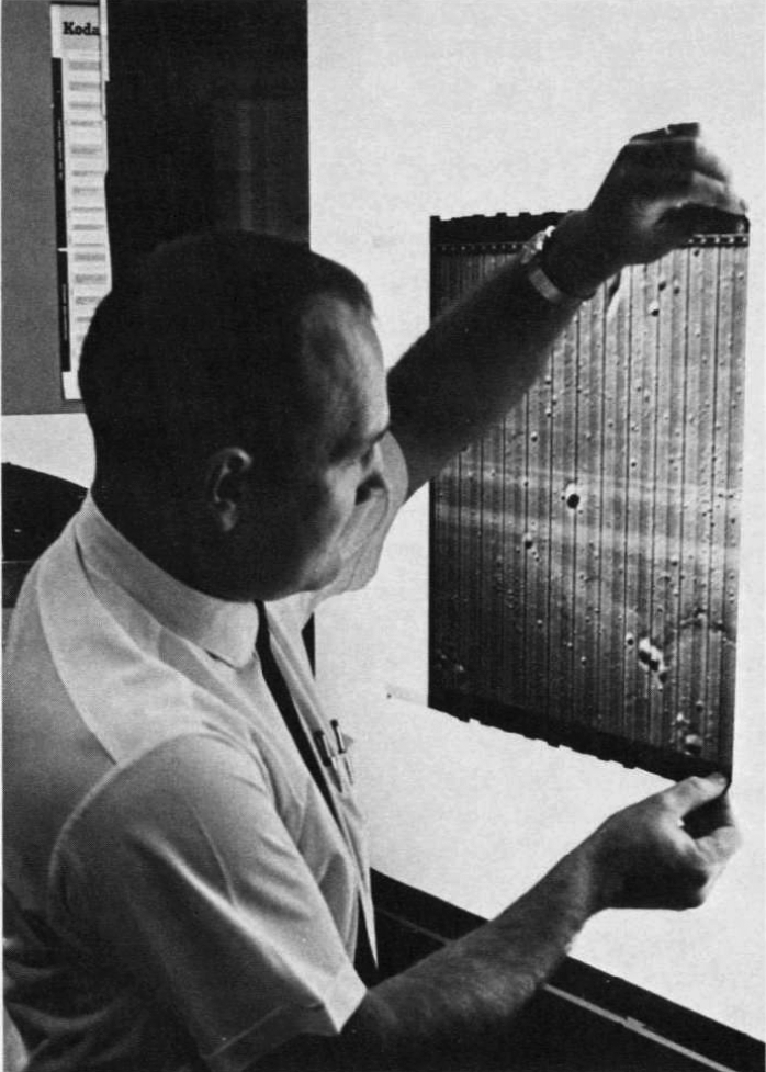 Typical Lunar Orbiter photographic mosaic is assembled in the GRE area in the SFOF. The process was used for near-real-time quality assessment of Lunar Orbiter photography